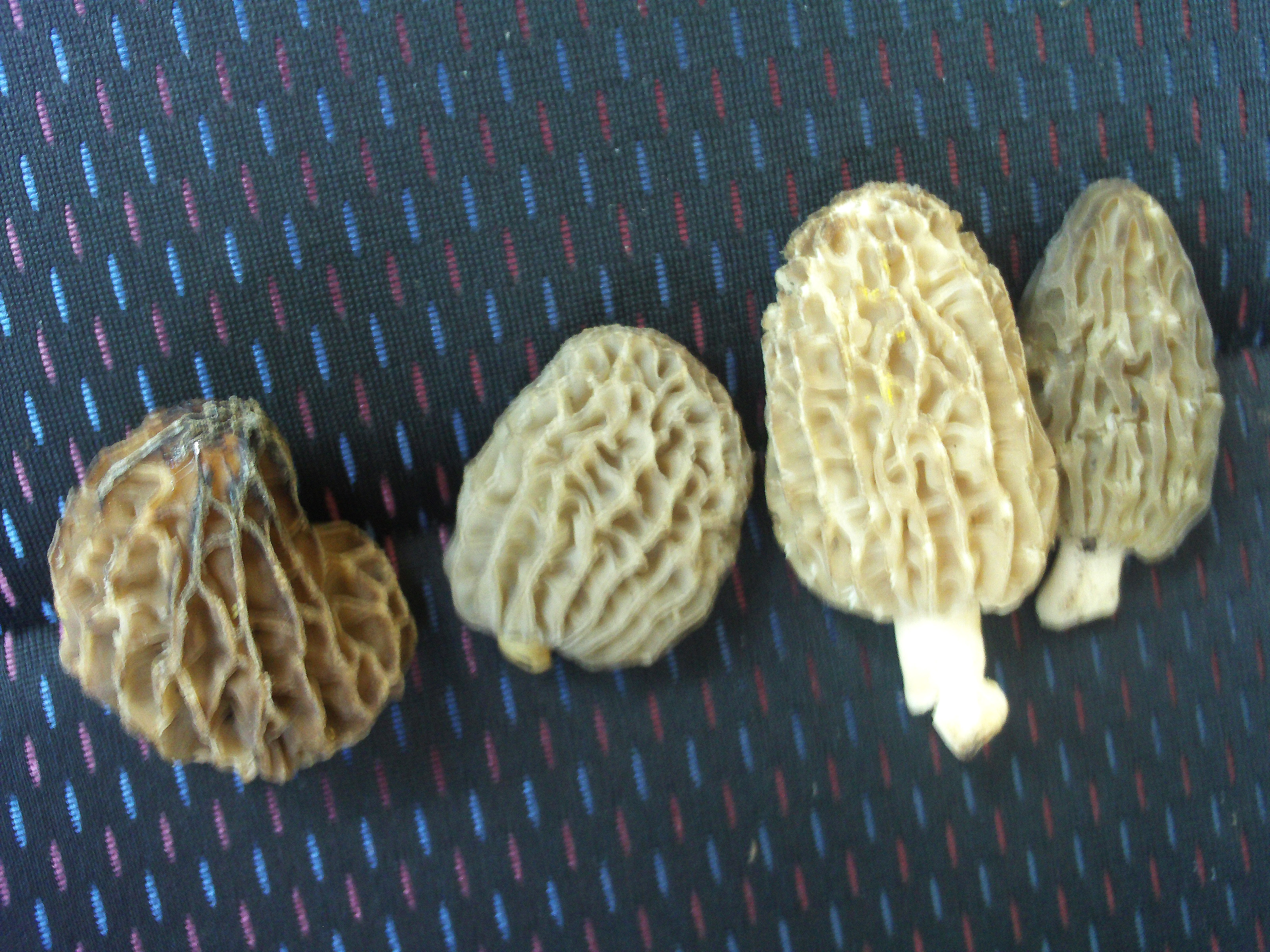 Morchella esculenta, Sierra Madrona, Spain